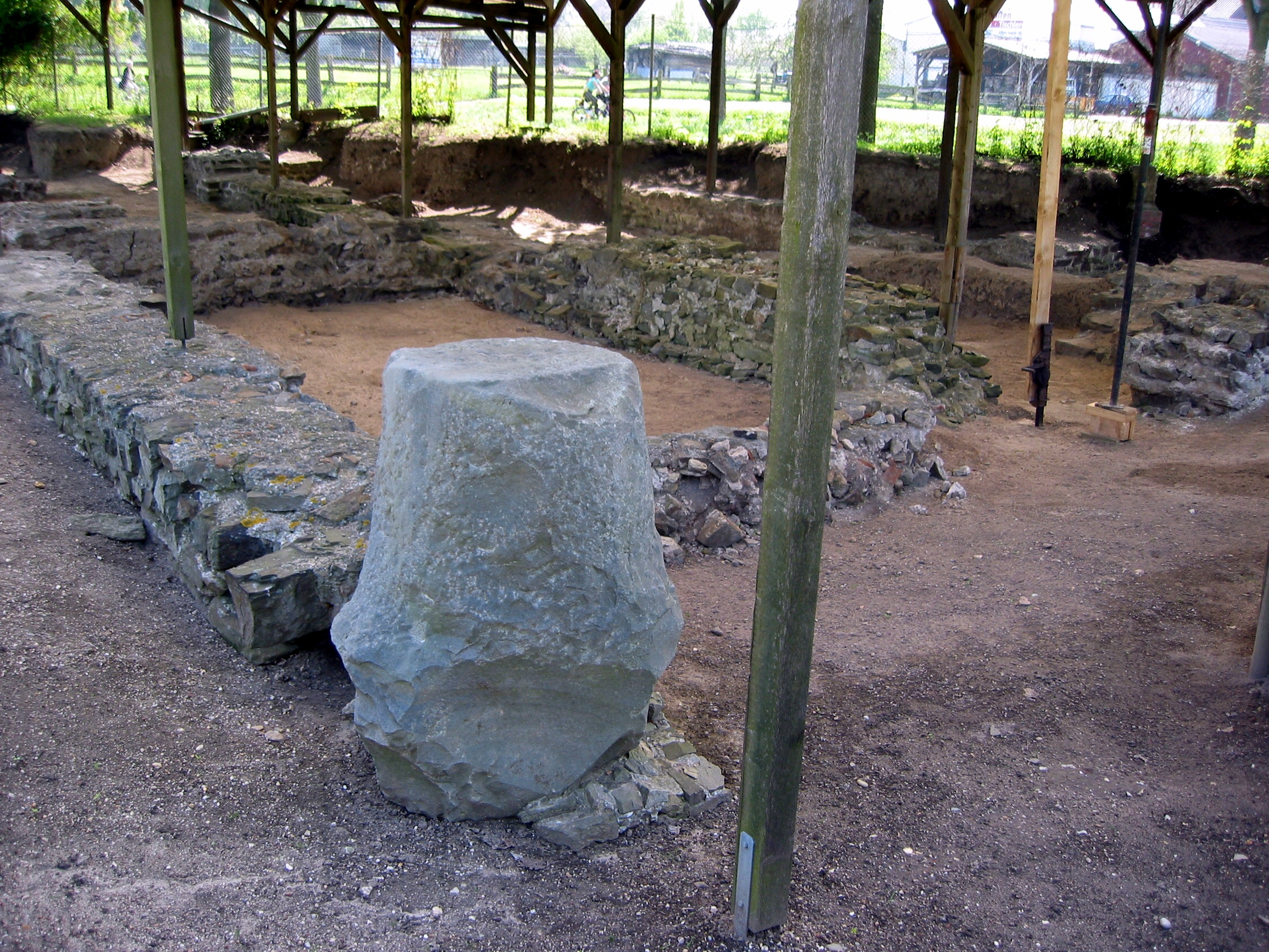 Photo taken April 23, 2005, by Magnus Manske, with expressed verbal permission. Colors/contrast enhanced with Picasa.